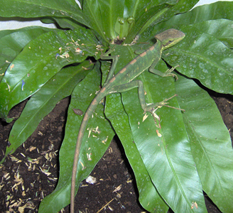 Laurent Dousset (private collection)